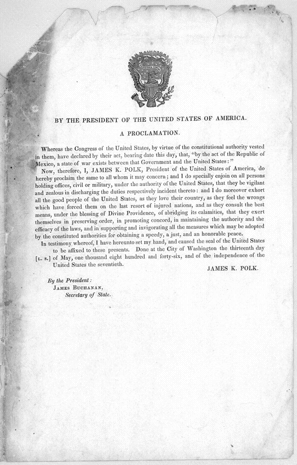 By the President of the United States of America. A proclamation. Whereas the Congress of the United States, by virtue of the constitutional authority vested in them, have declared by their act, bearing date this day, that "by the act of the Republic of Mexico, a state of war exists between that Government and the United States:"